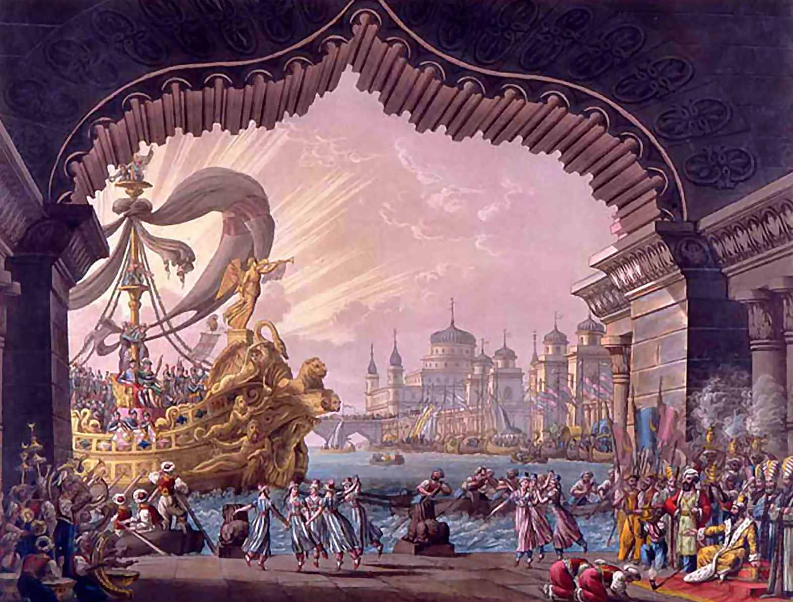 Francesco Bagnara's stage set (1824) for Giacomo Meyerbeer's Il crociato in Egitto (Act I, Scene 3)